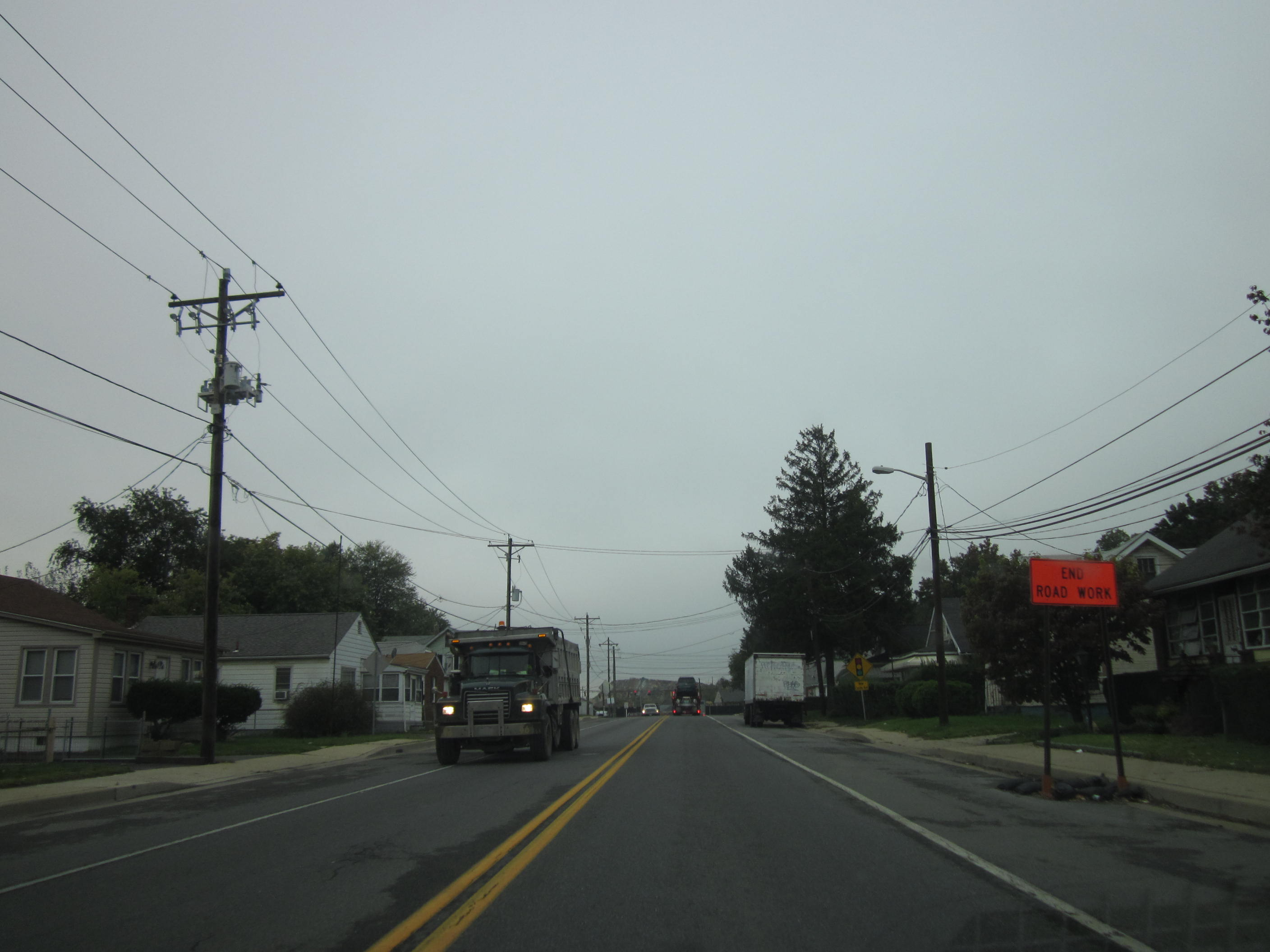 Delaware State Route 9A southbound approaching Delaware Route 9 in Wilmington